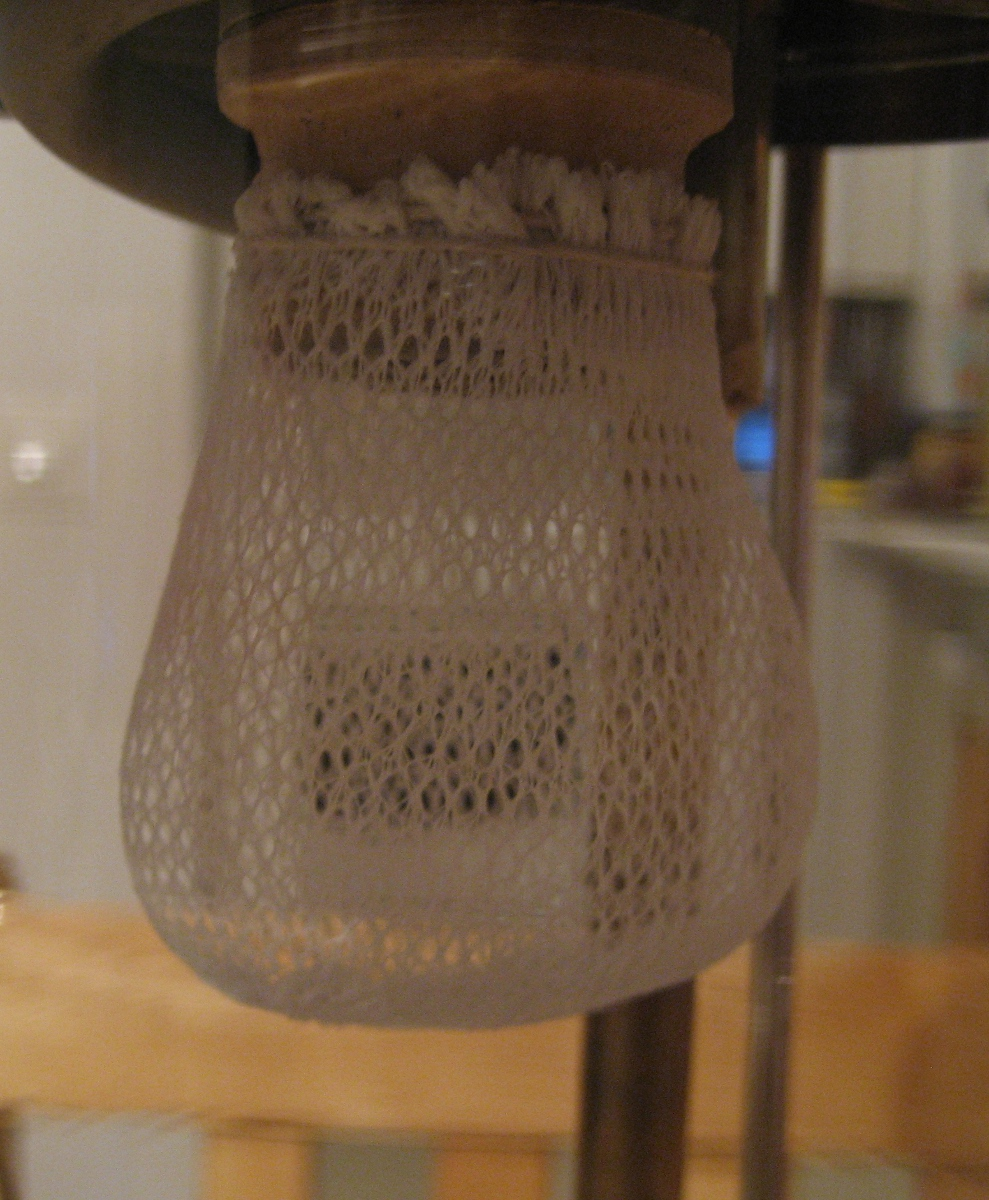 Gas mantle in Petromax HK500 pressure lantern, which has been used.